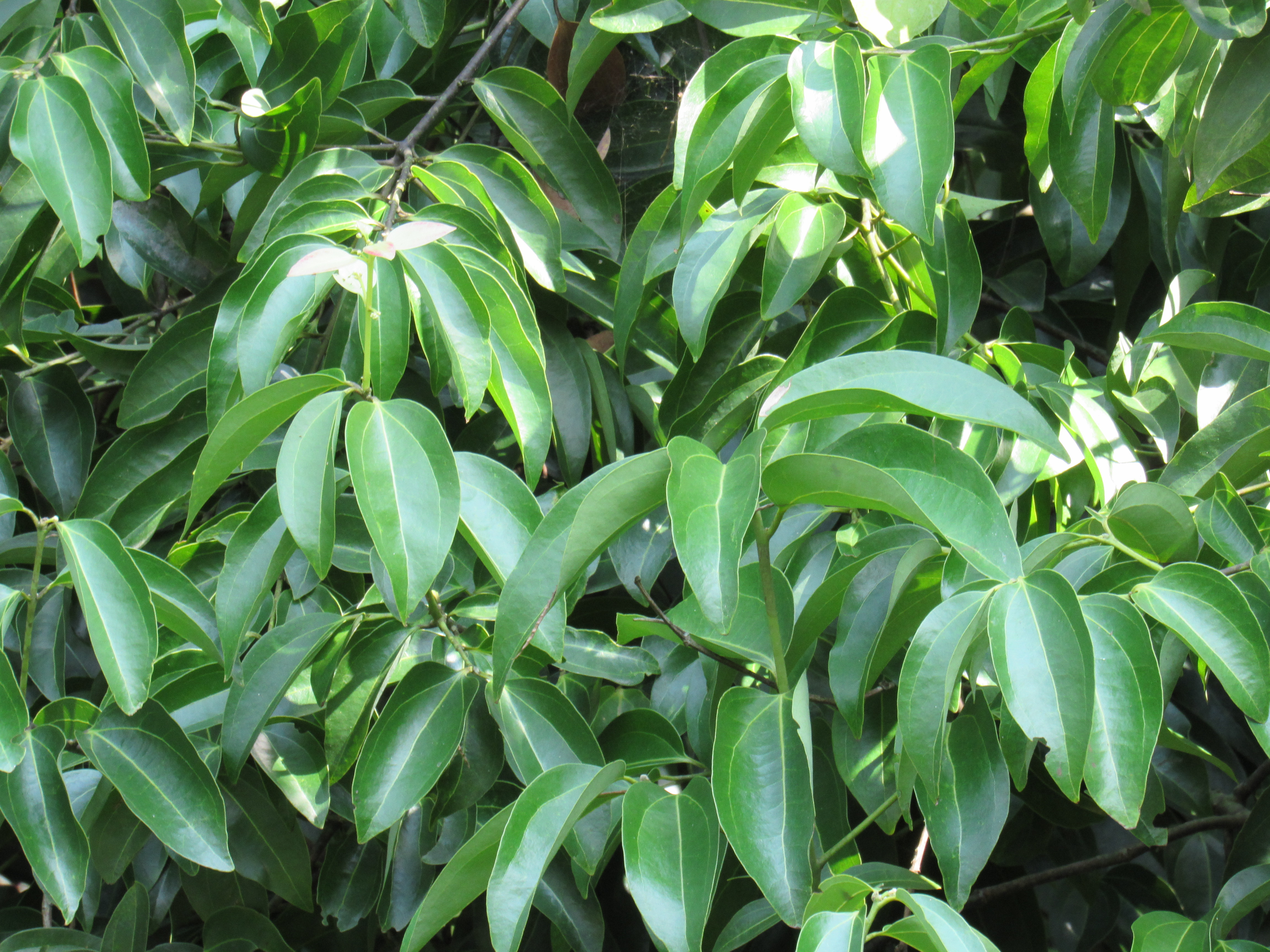 Cinnamomum zeylanicum (Cinnamon) leaves in RDA, Bogra